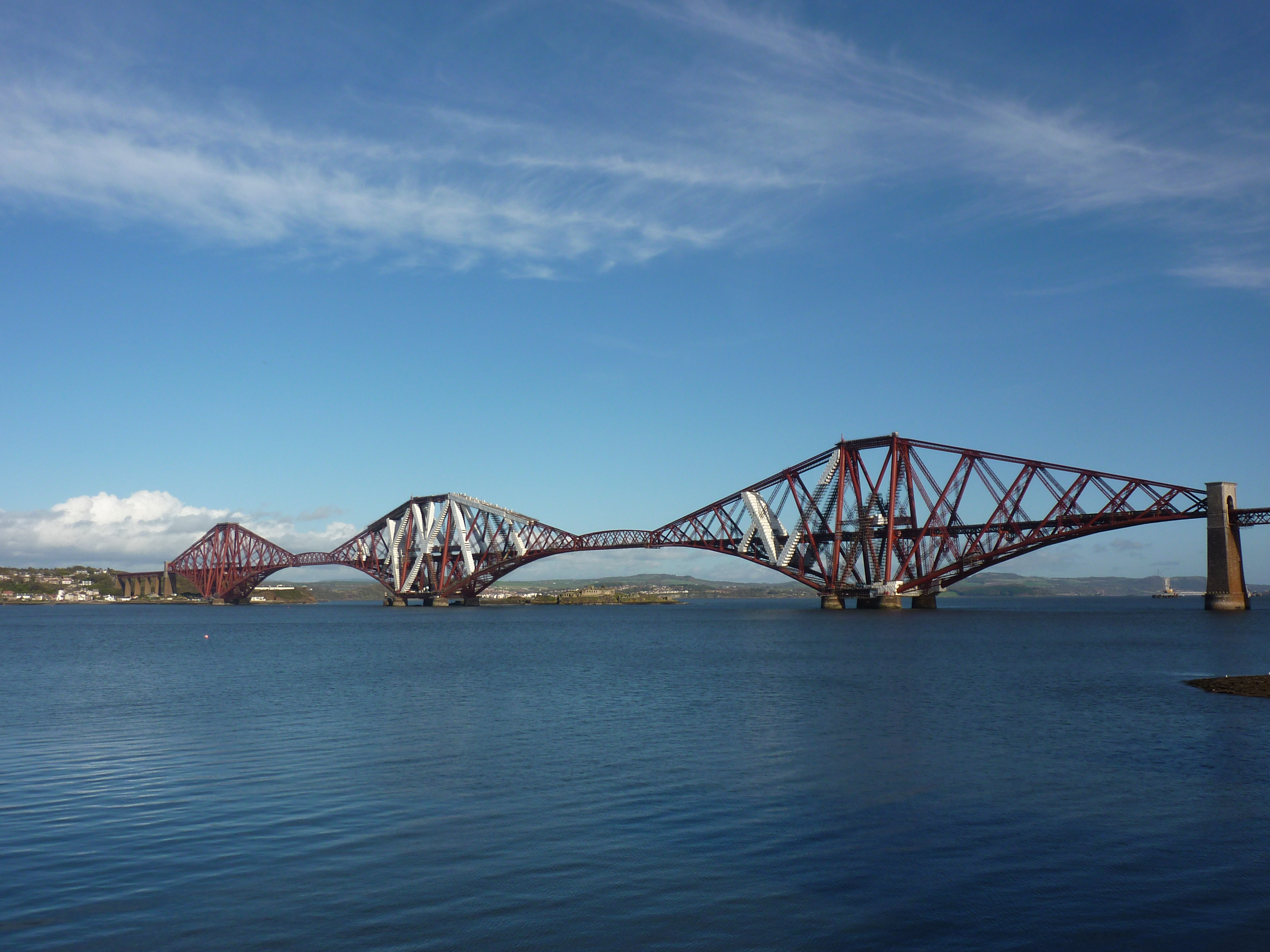 And here is the master of bridges itself.